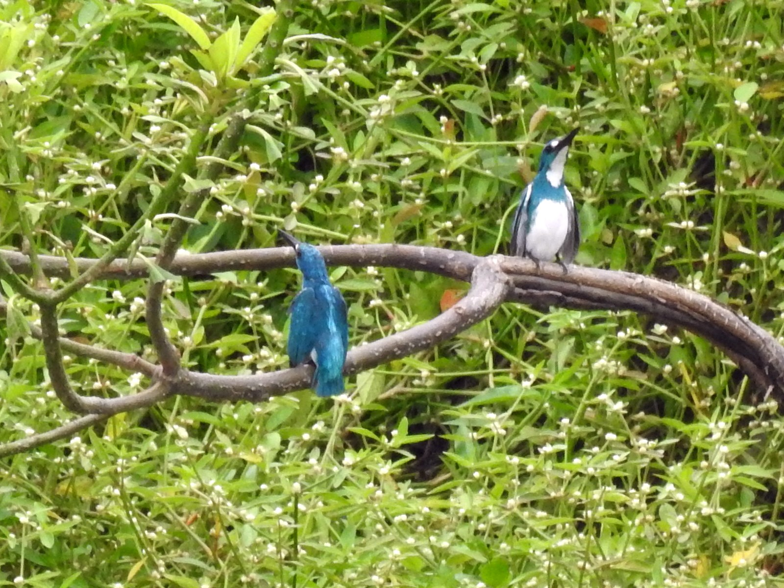 Small blue kingfisher (Alcedo coerulescens); two birds, presumably a pair, performing mating display. From Bekasi, West Java, Indonesia.